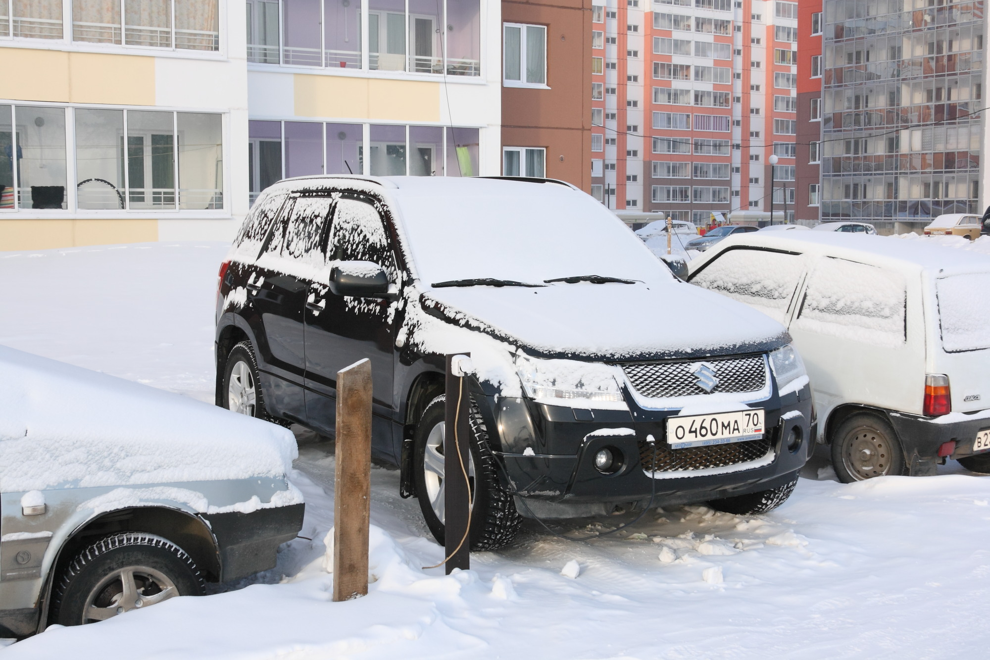 Suzuki Grand Vitara connected to electricity to power block heater. Temporary power outlet is installed by the car owner at a public parking lot with the wire coming out of his apartment window. Picture taken in Tomsk, Russia.